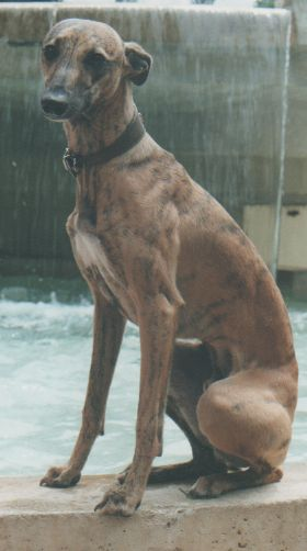 Whippet brindle male